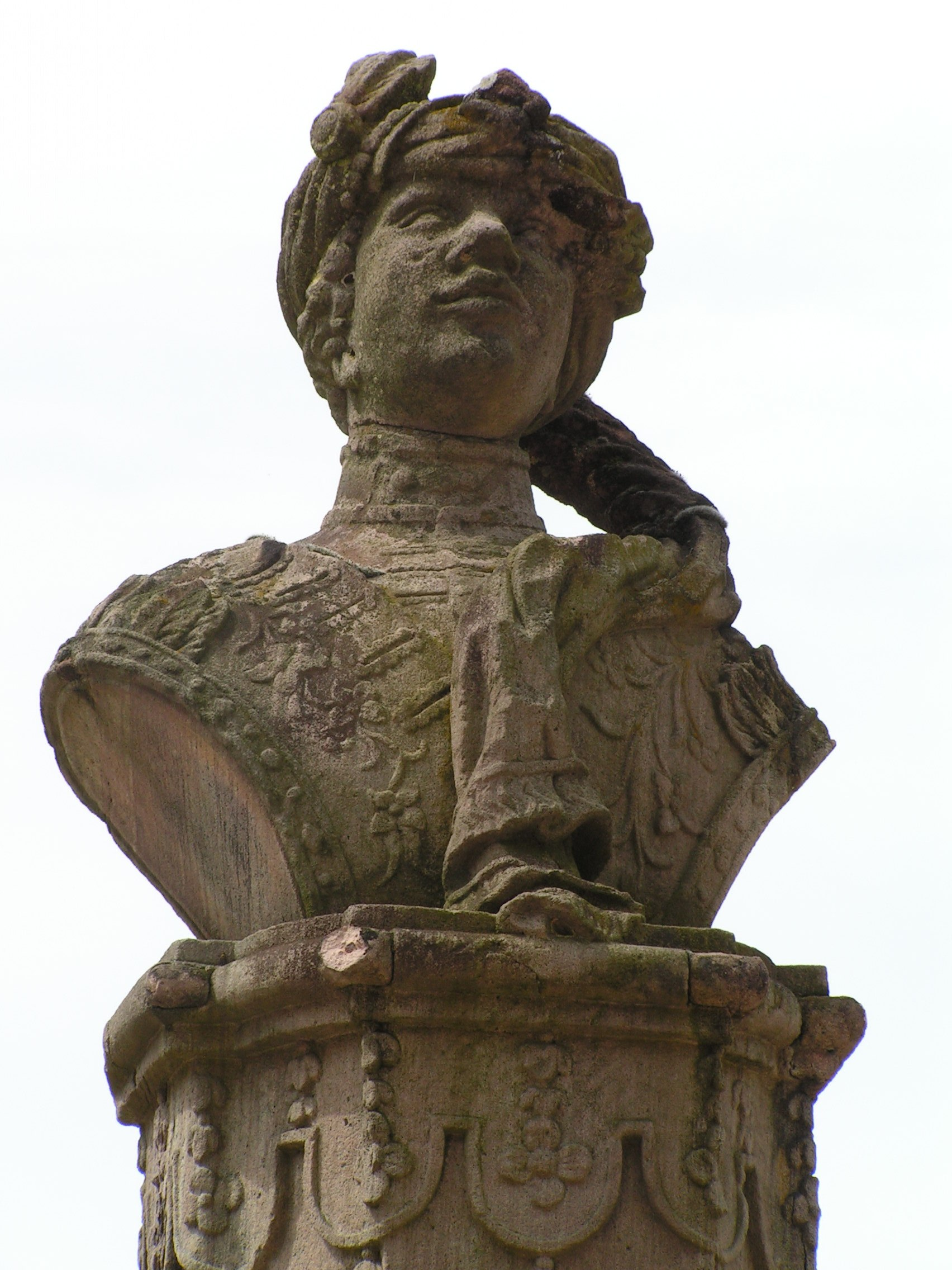 Bust of 'Türkenlouis' outside Schloss Favorite, Rastatt, Germany